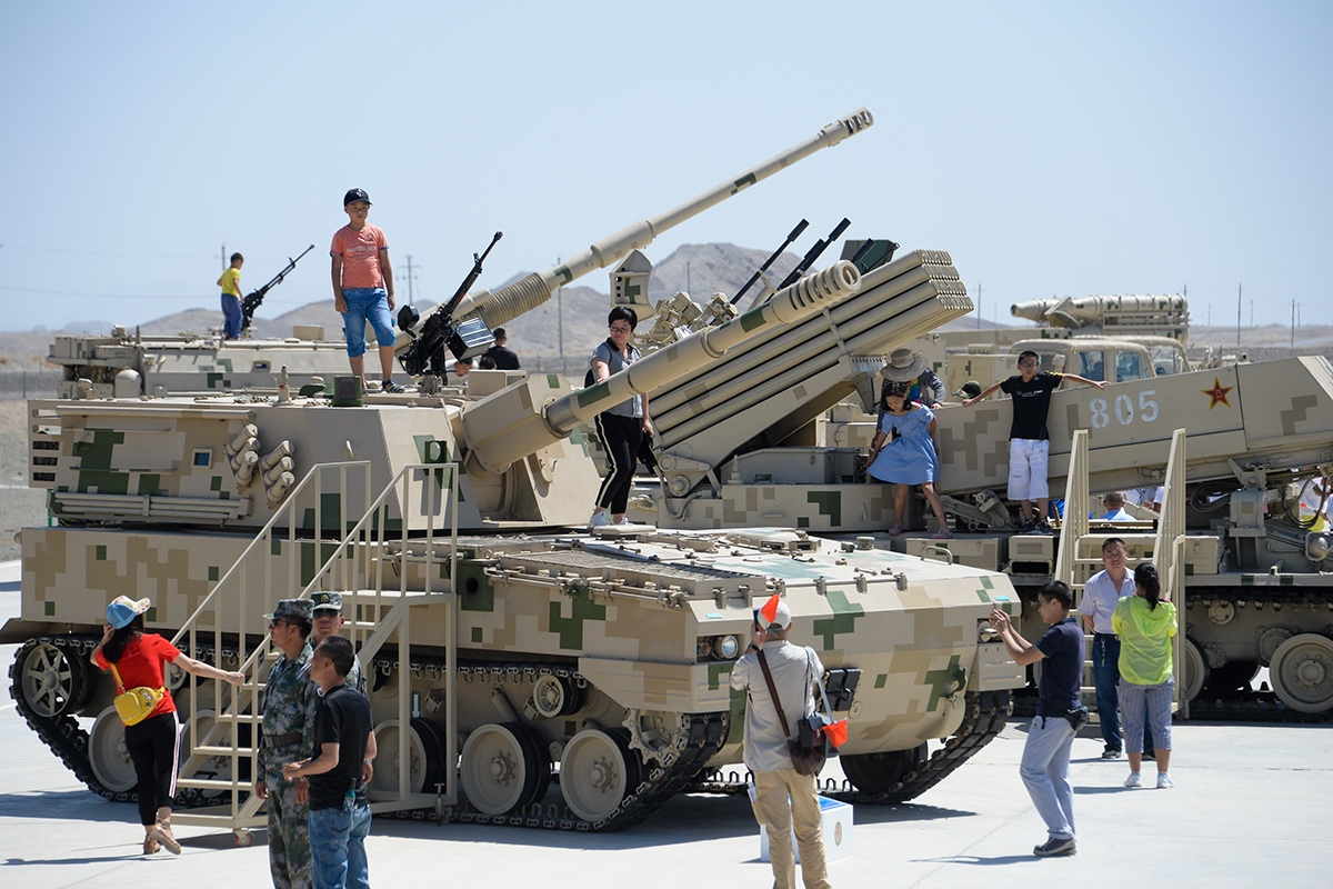 PLZ-07 self-propelled howitzer.